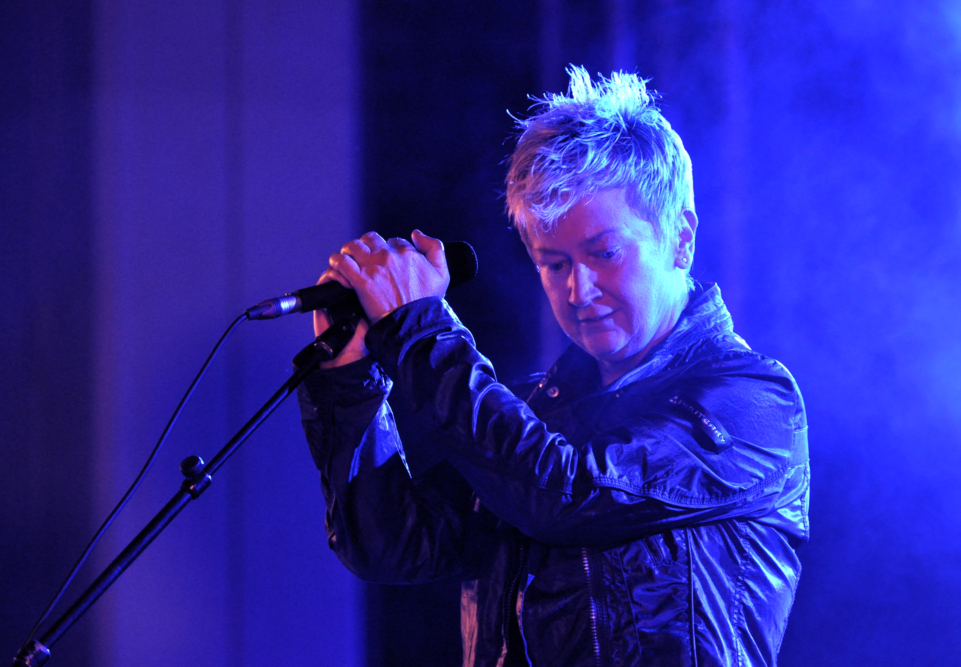 Anne Clark at the Amphi Festival 2013, Cologne, Germany